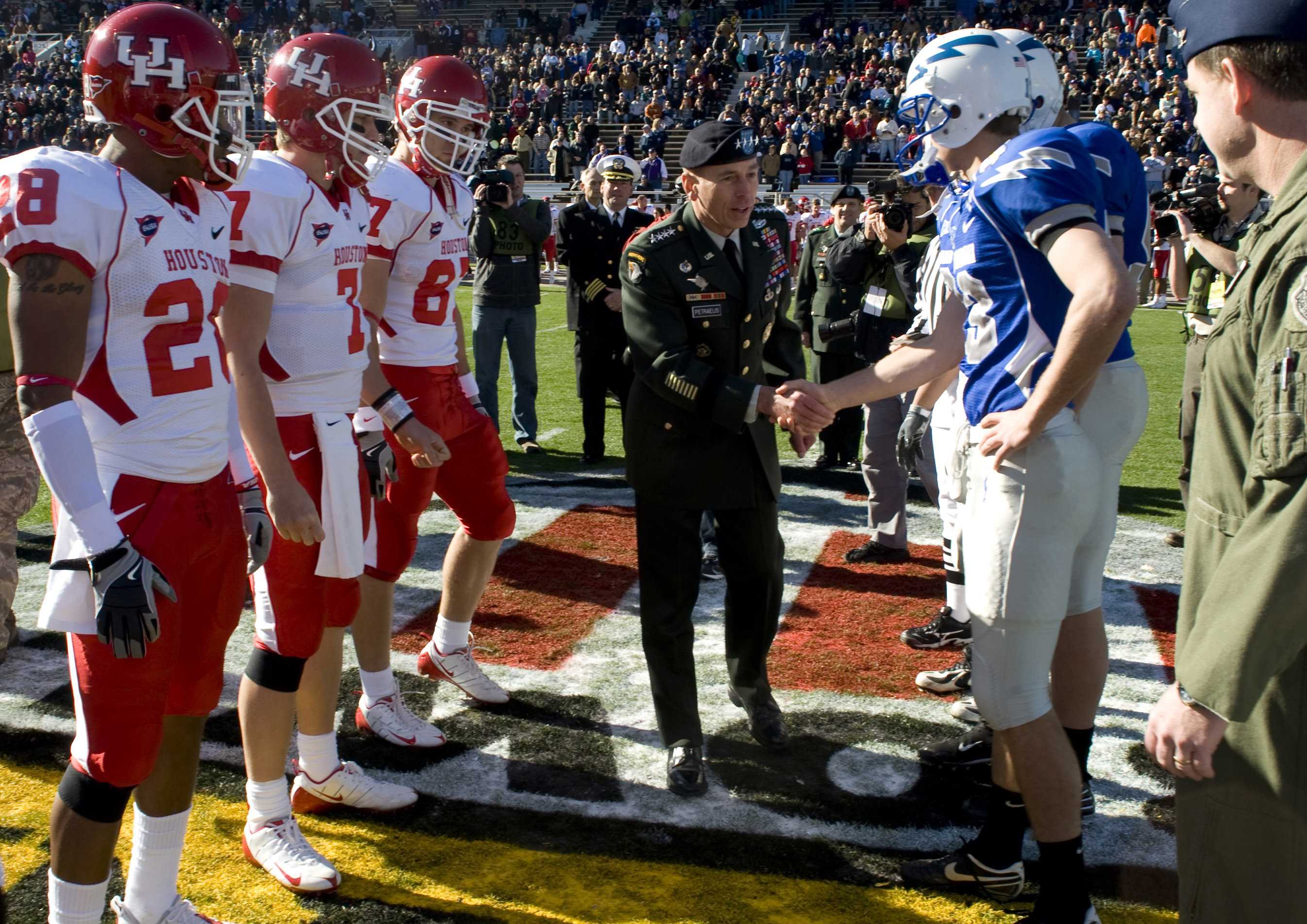 Army Gen. David Petraeus shakes hands with football players from the U.S. Air Force Academy and the University of Houston prior to the coin toss Dec. 31 at the sixth annual Bell Helicopter Armed Forces Bowl in Fort Worth, Texas. General Petraeus, U.S. Central Command commander, performed the coin toss and was honored during the game's half-time event.